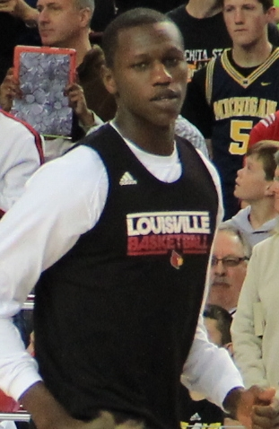 Louisville Cardinals basketball player Gorgui Dieng